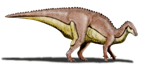 Xuwulong